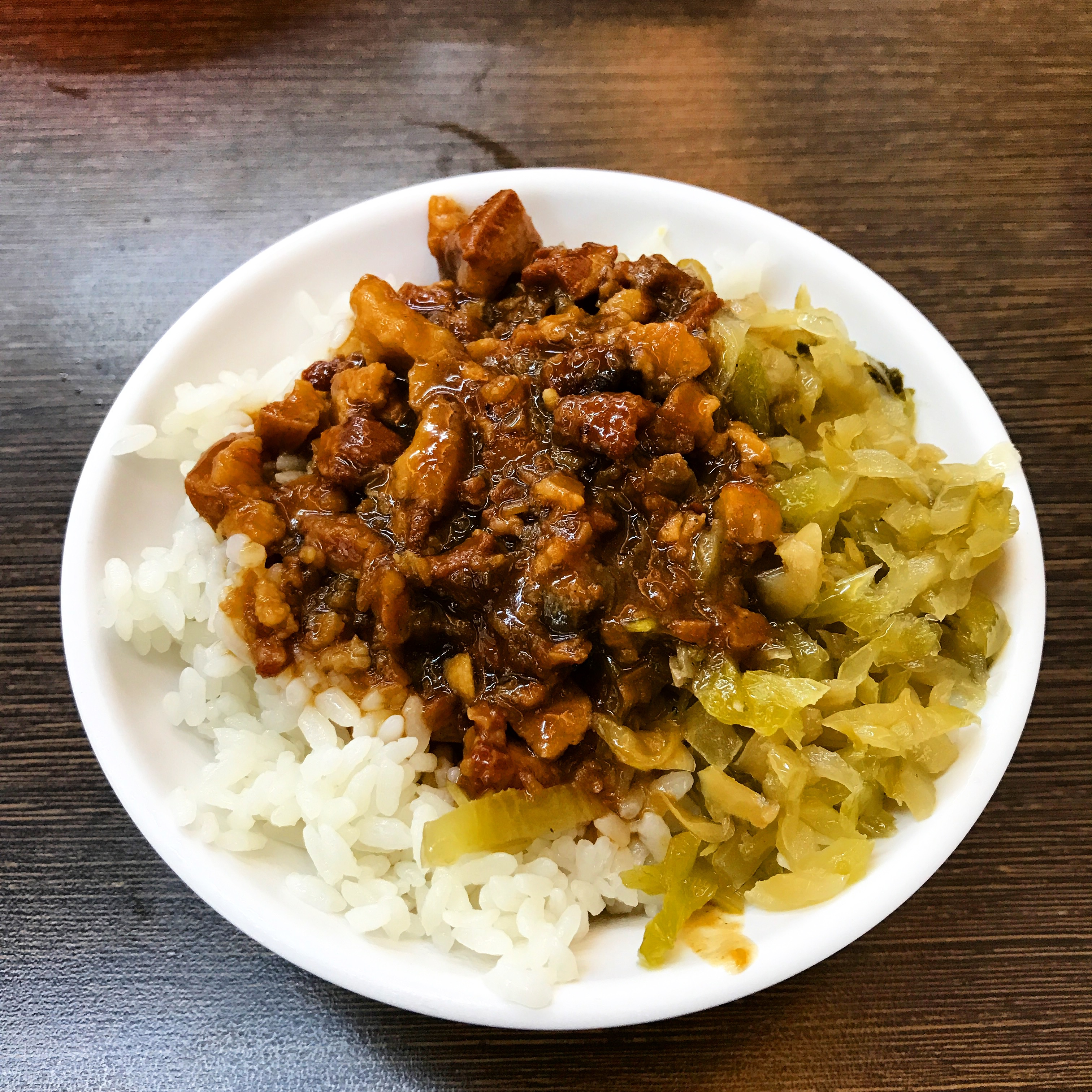 Minced pork rice with Chinese sauerkraut bought from Wufeng.